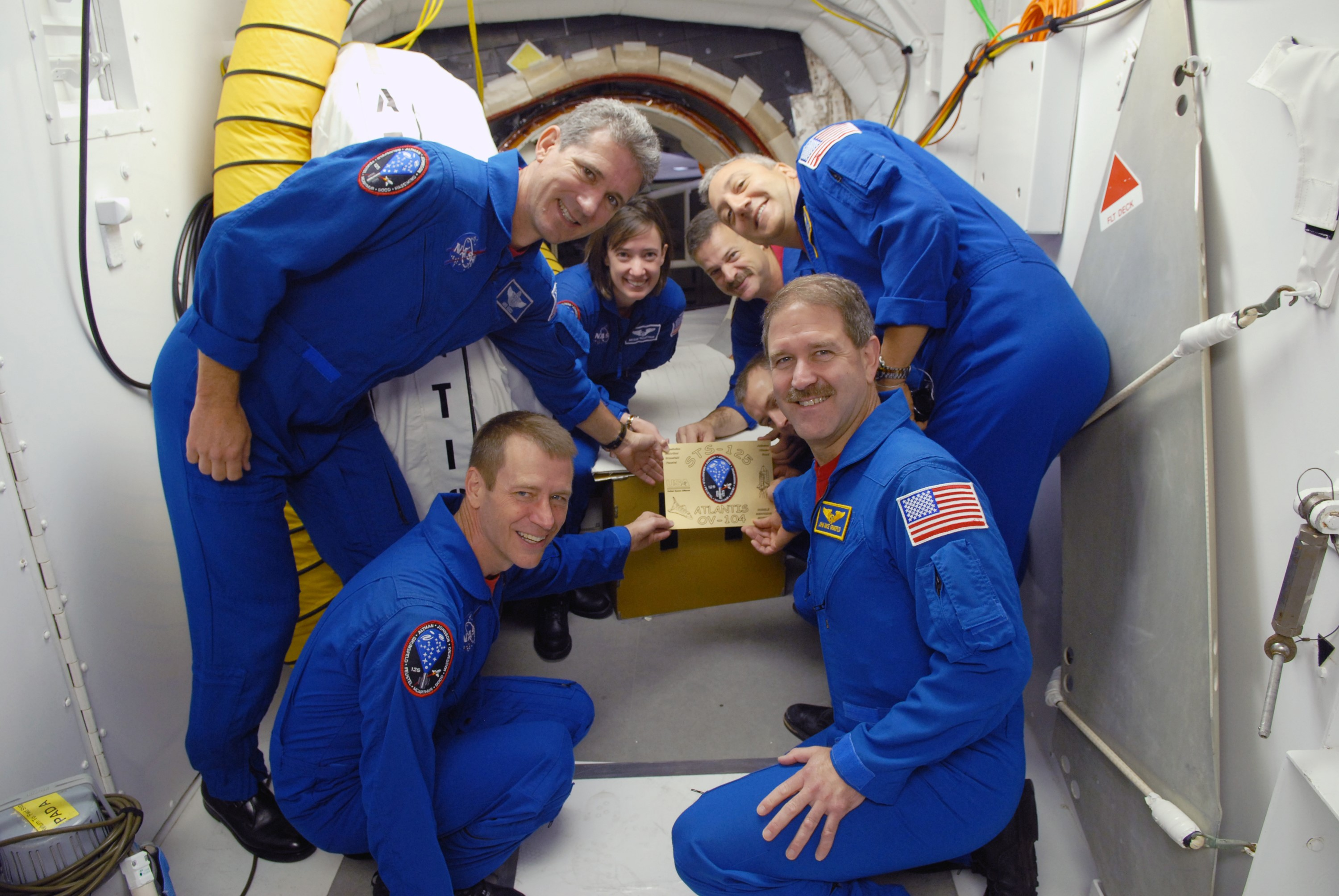 Inside the White Room on Launch Pad 39A at NASA's Kennedy Space Center in Florida, STS-125 crew members get ready to affix the mission logo to the entrance into space shuttle Atlantis. Clockwise from left front are Pilot Gregory C. Johnson, Mission Specialists Michael Good and Megan McArthur, Commander Scott Altman, and Mission Specialists Mike Massimino and John Grunsfeld.